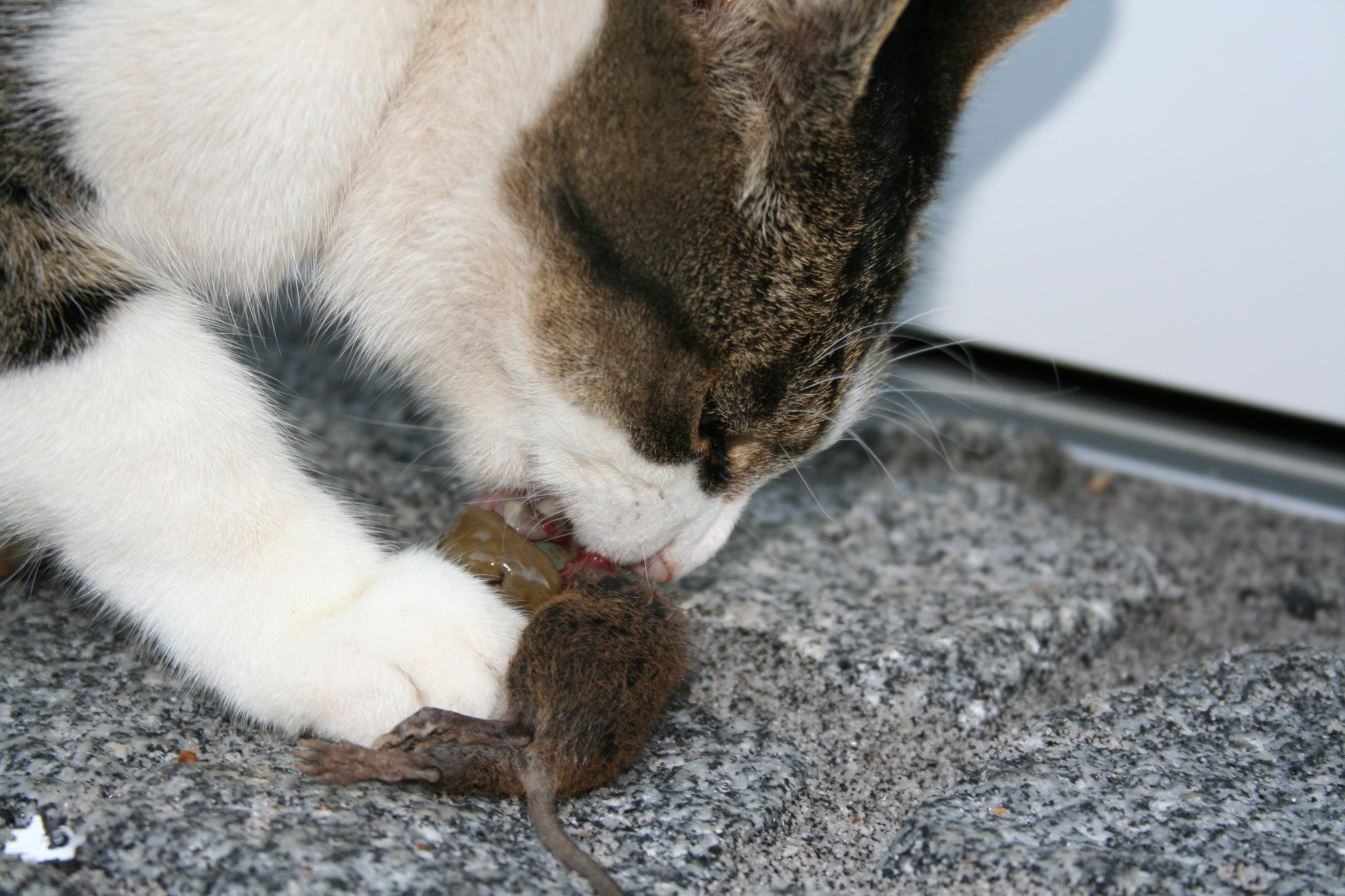 This image shows a cat, eating a self-hunted mouse. Uses it paw to hold down the prey.